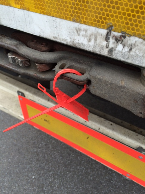 Truck with security seal